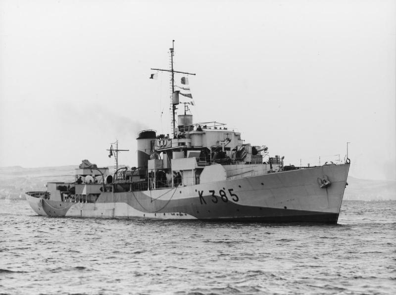 IWM caption : Modified Flower Class Corvette HMS ARABIS at low speed in the Clyde. Possibly during her work up trials before her commission and passing to the Royal New Zealand Navy.